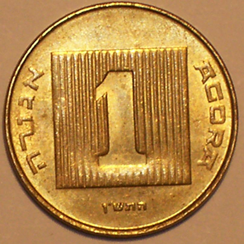 0.01 New Israeli Shekel (front)